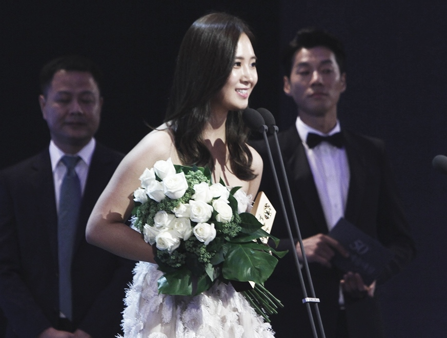 Kwon Yu-ri at the Paeksang Arts Awards on May 27, 2014